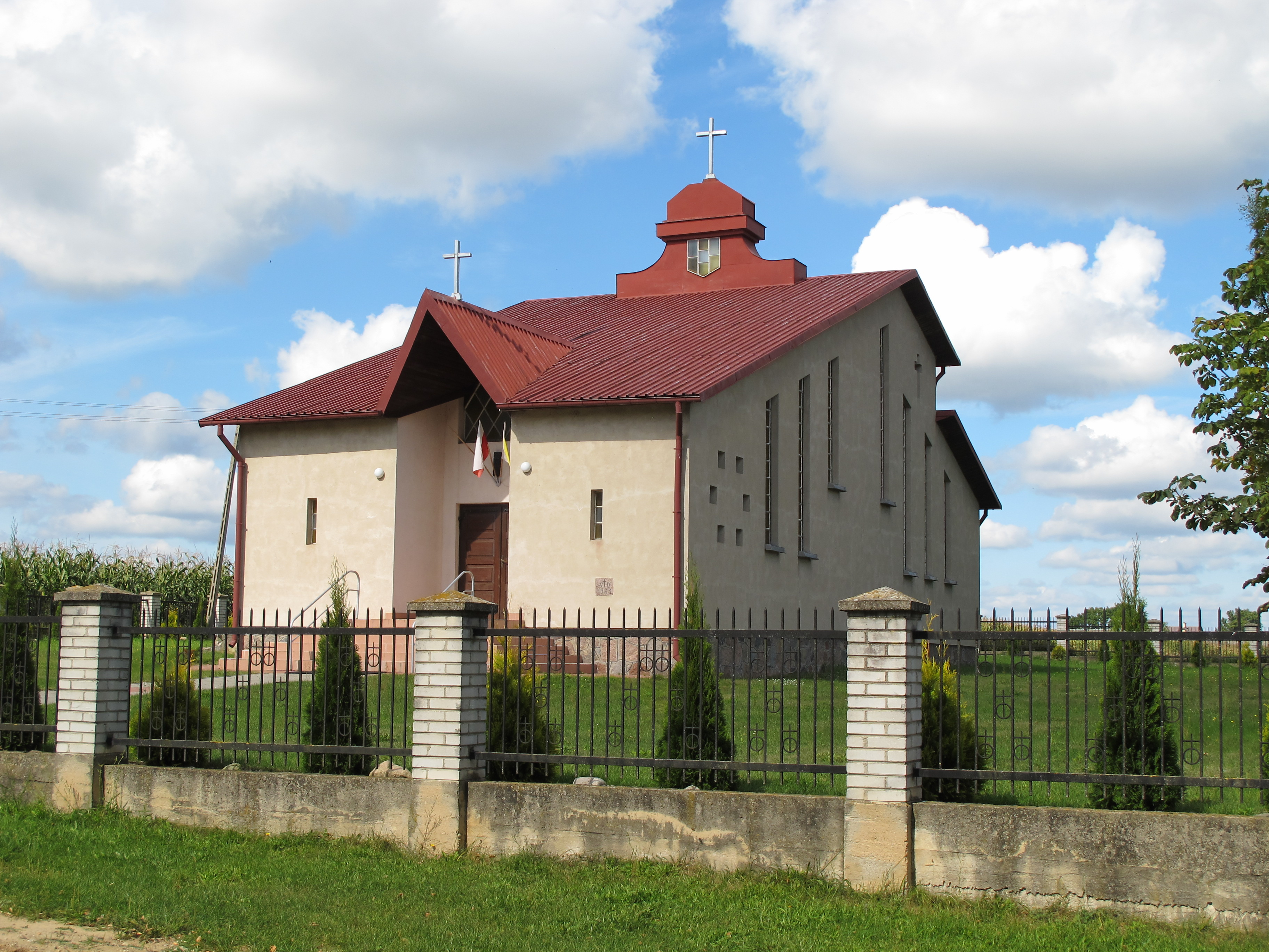 Saint Maximilian M. Kolbe branch church in Daniłowo Duże, gmina Łapy, podlaskie, Poland